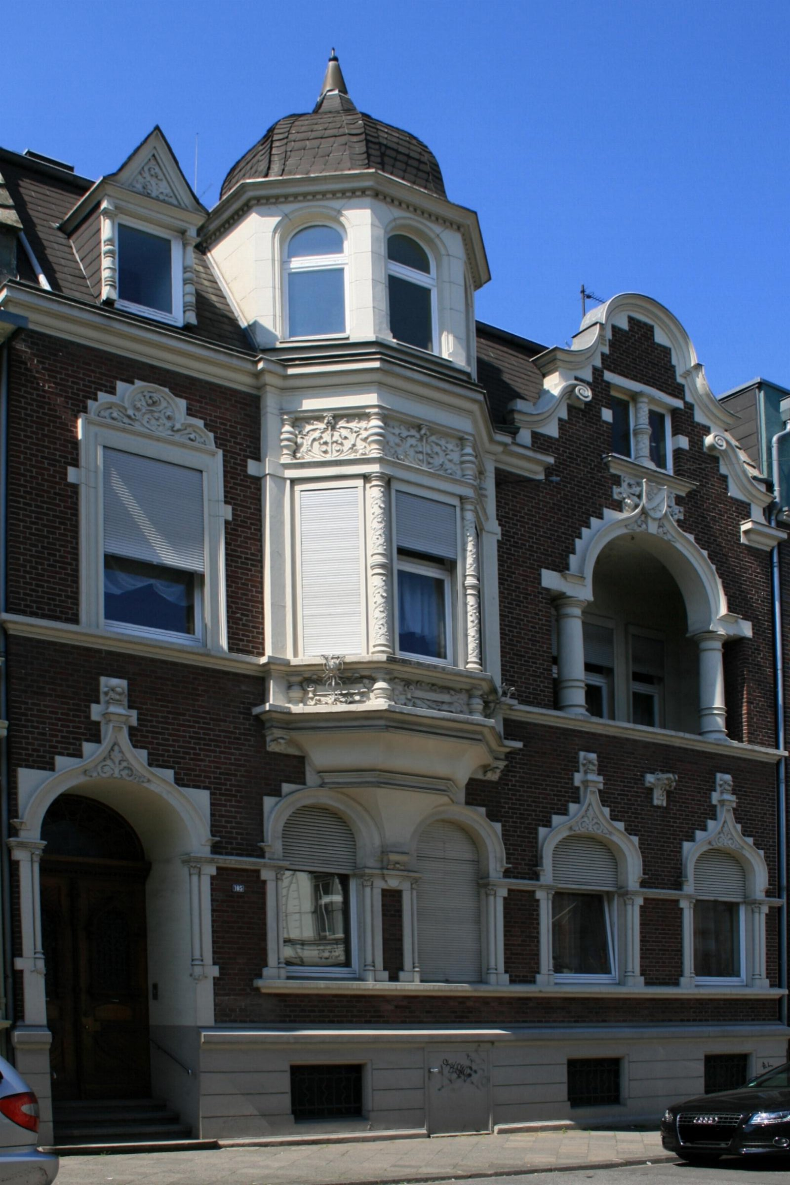 Cultural heritage monument No. R 053 in Mönchengladbach